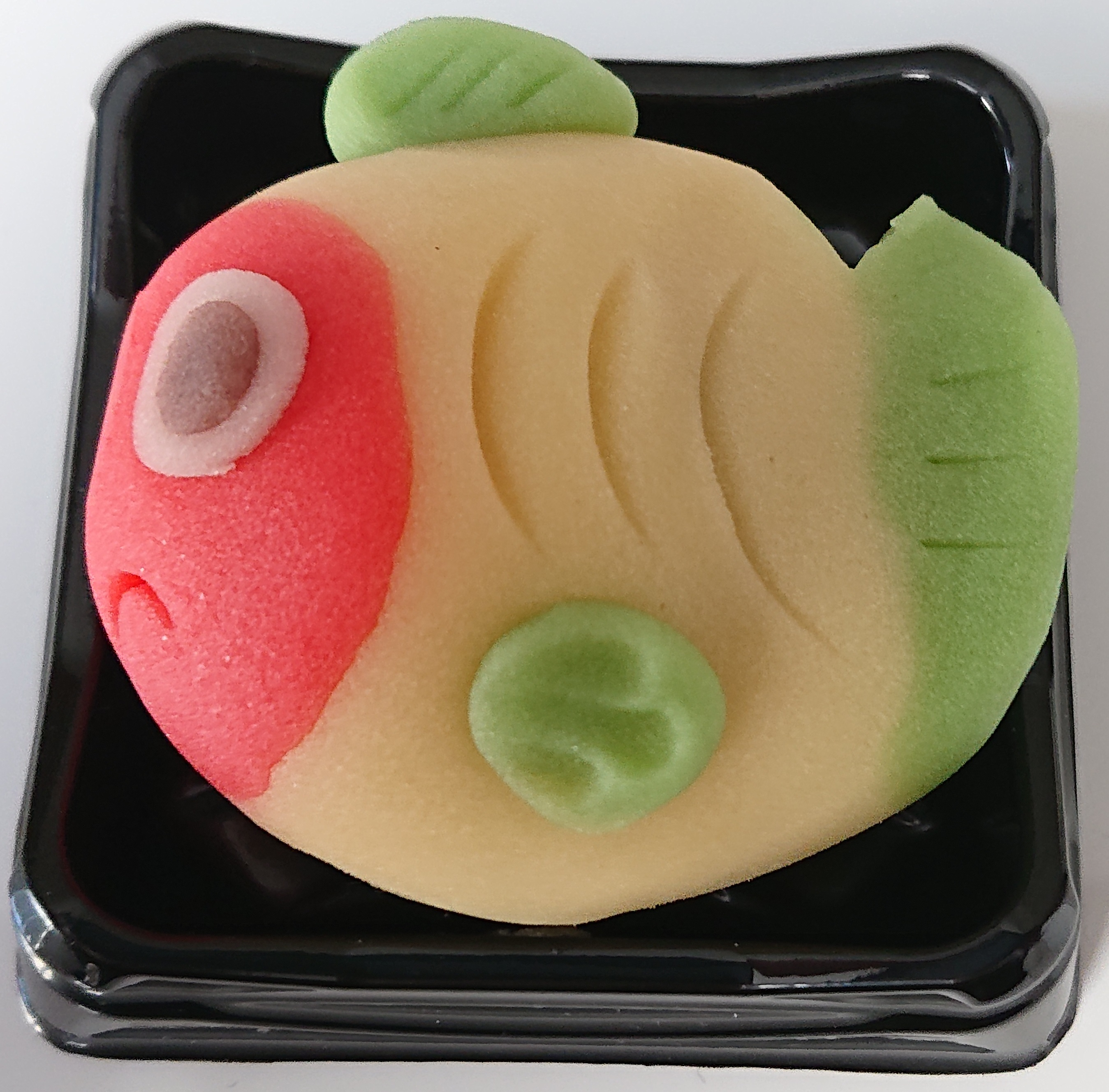 This is a nerikiri "Kibuna", a crucian carp, made by Kourindo, a wagashi shop in Utsunomiya, Tochigi, Japan.